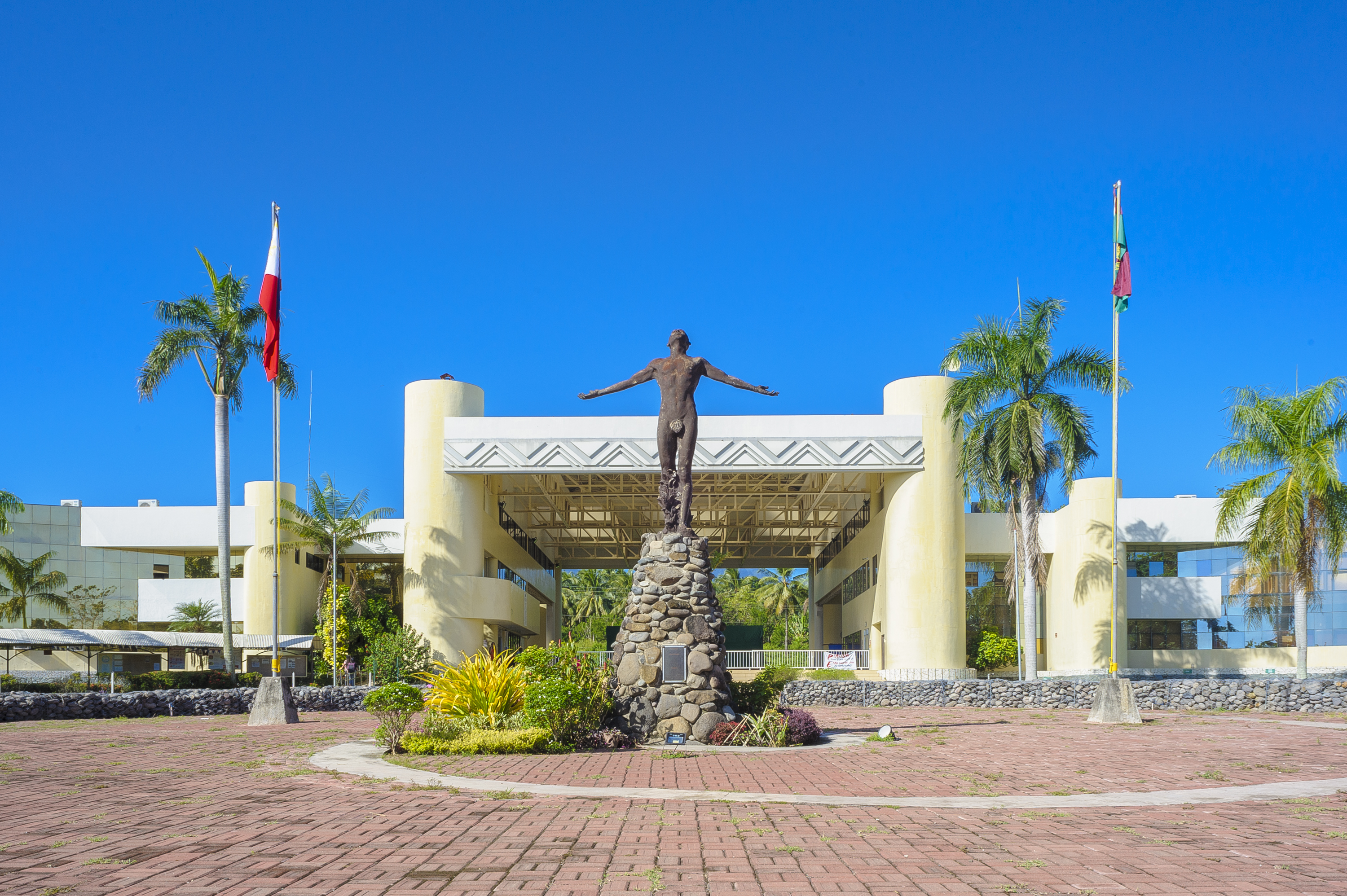 UP Mindanao's Oblation in the Oblation Circle, in front of Administration Building. Taken on 28 November 2019.